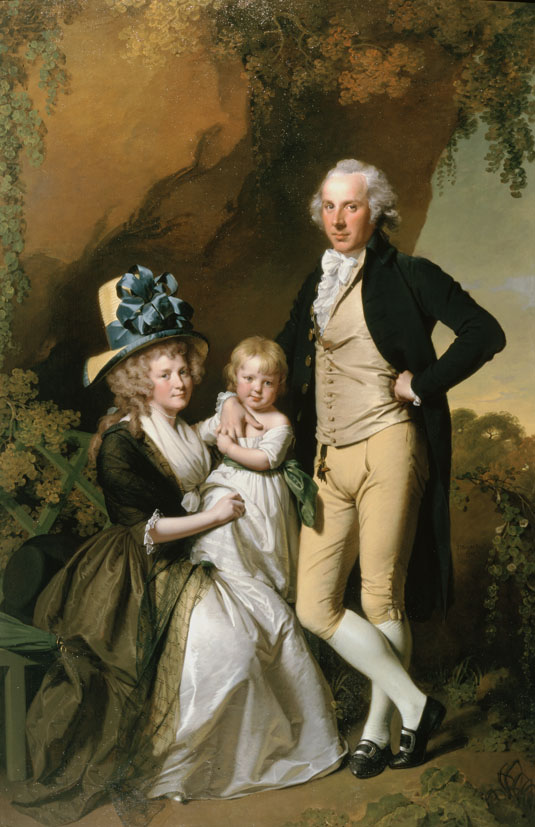 Son of Sir Richard Arkwright of Cromford, Derbyshire, Richard Arkwright Junior (1755 - 1843) was the financier (creditor) of Samuel Oldknow of Marple and Mellor Mill and a personal friend. Sir Richard (the father) had earlier patented the water frame, a roller-spinning machine powered by water, that turned textile spinning into a factory industry and in so doing he founded the factory system of manufacture. Richard Arkwright Junior followed in his illustrious father’s footsteps and he developed the factory system even further. He was an outstanding organiser of labour and machinery processing, ambitious, forceful and persevering.